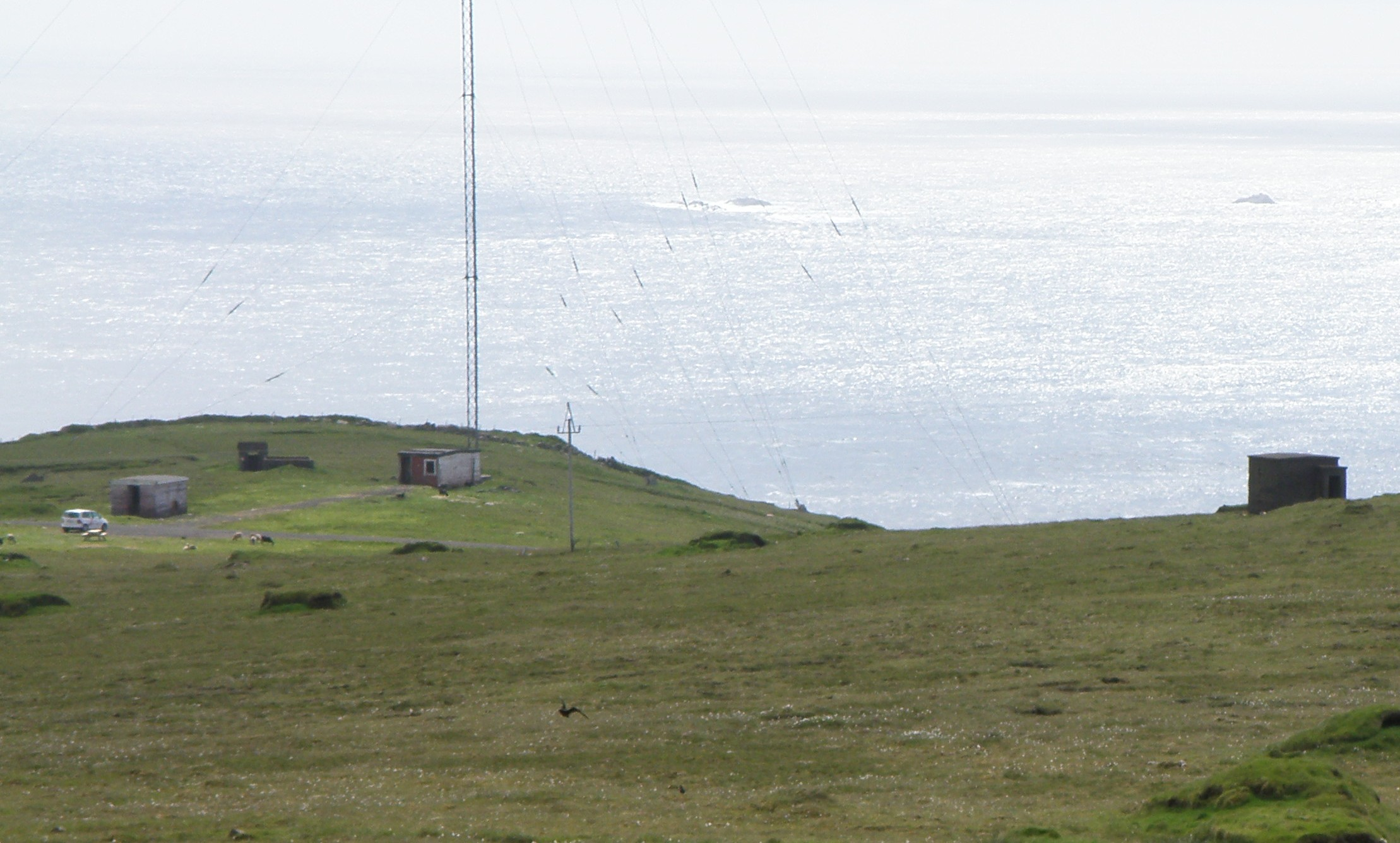 British pillboxes in Akraberg, which is the southernmost place in the Faroe Islands. Flesjarnar and Munkurin are the southernmost rocks in the Faroe Islands, they are visible on this photo. Munkurin (the Monk) is a bit to the right for the other three rocks, it is lying by itself, that is why it is called the Monk (Munkurin). The Faroe Islands were occupied by United Kingdom, while Denmark (which the Faroe Islands belong to) was occupied by Germany. The view on this photo is towards south. Føroyskt: Akraberg og Flesjarnar. Akraberg er syðsta stað í Suðuroynni og í Føroyum. Vitin sæst ikki á hesi myndini. Her síggjast leivdir frá Seinna Heimskríggi, nakrir betongbygningar, har bretskir hermenn goymdu krút og vápn. Akraberg er eitt gott stað at halda vakt og har er frítt útsýni í allar næstan ættir út á hav.